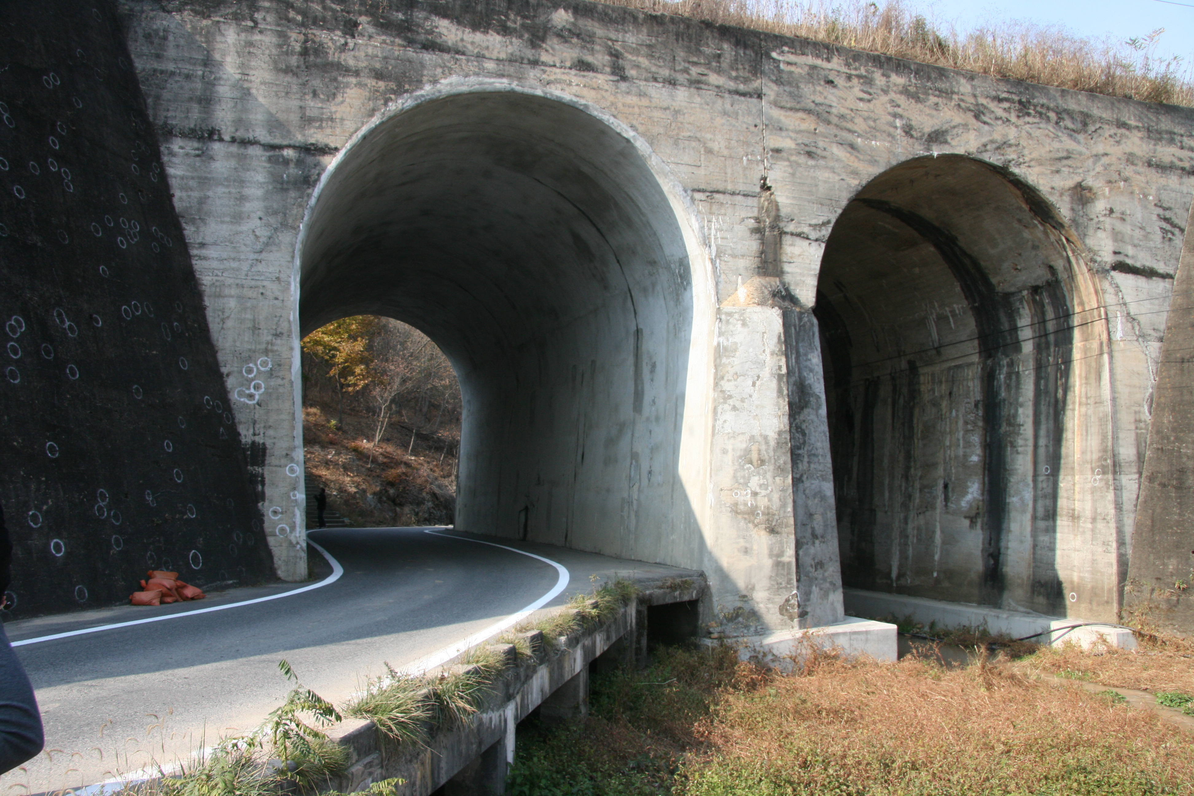 The twin-underpass railroad bridge at No Gun Ri, South Korea, where the U.S. military killed a large number of South Korean refugees July 26-29, 1950, early in the Korean War. The roadway was a later addition. White circles on the outer walls mark bullet holes from 1950.